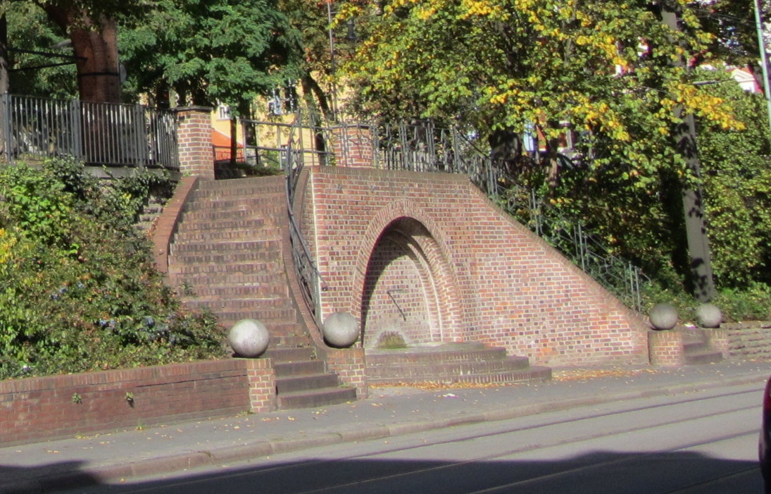 Listed drinking water fountain in street Goethestrasse in Schwerin, Mecklenburg-Vorpommern. You can find it in opposite to the houses number 71 and 73.